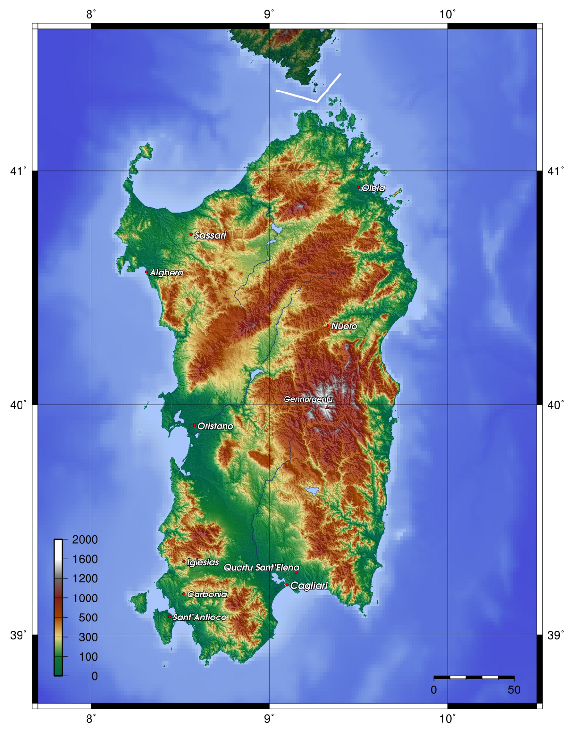 Description: Topography of Sardinia, created with GMT 4.1.3